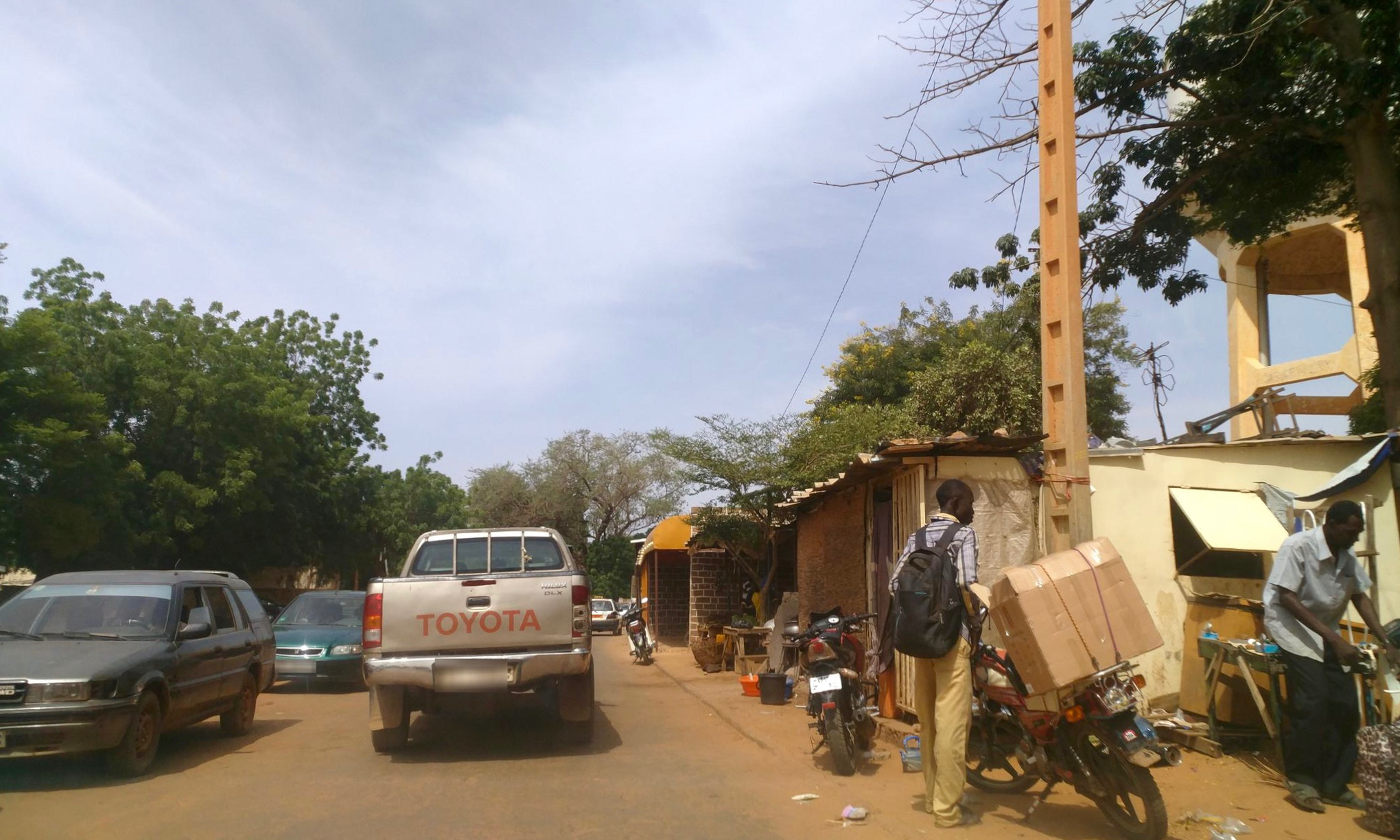 Avenue du Fleuve Niger in Château 1, Niamey.